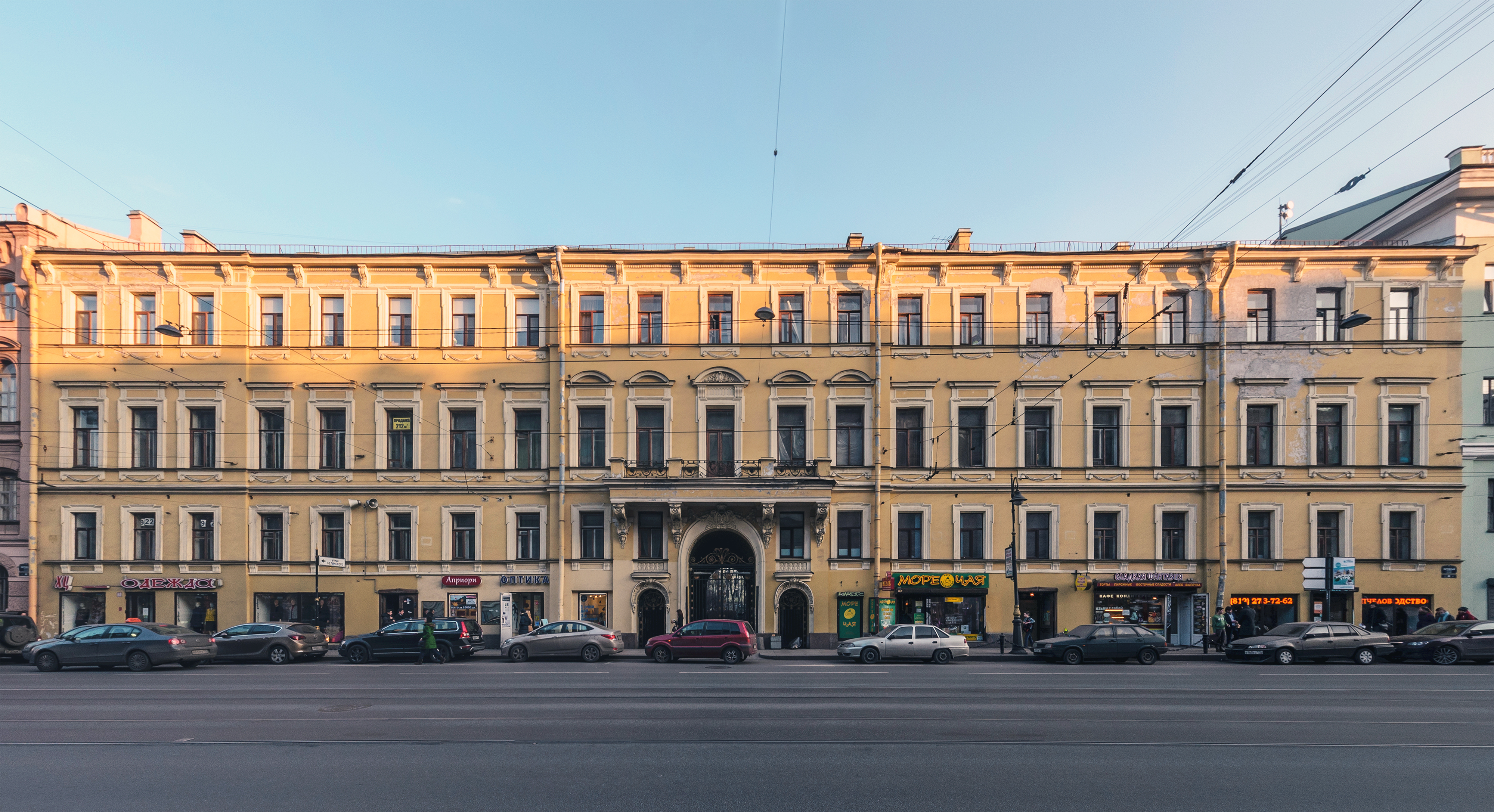 46, Liteyny Avenue in Saint Petersburg